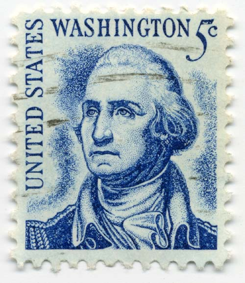 Scan of United States 5c "clean face Washington" stamp of 1967